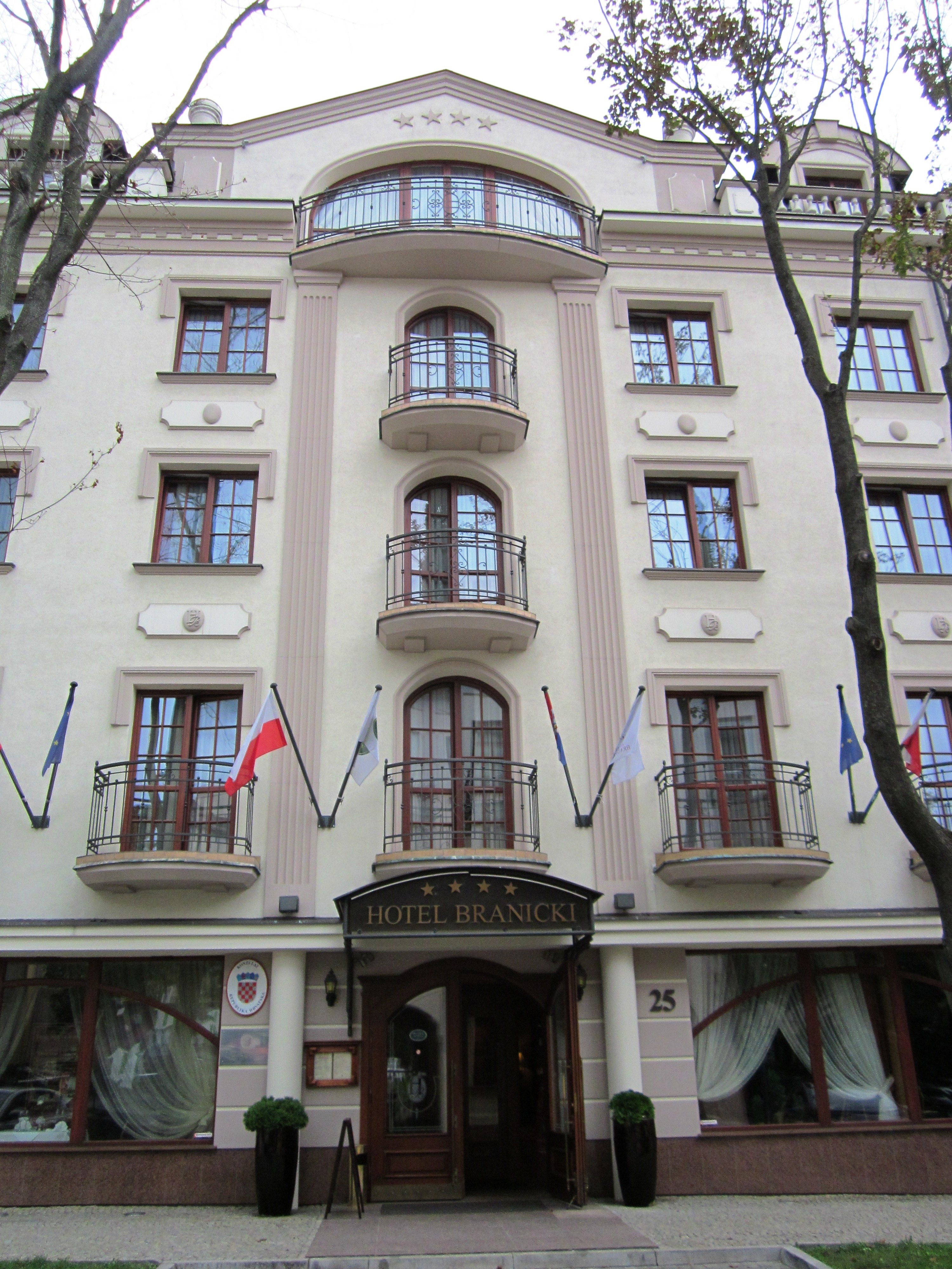 Honorary Consulate of the Republic of Croatia in Białystok, 25 Zamenhofa street.